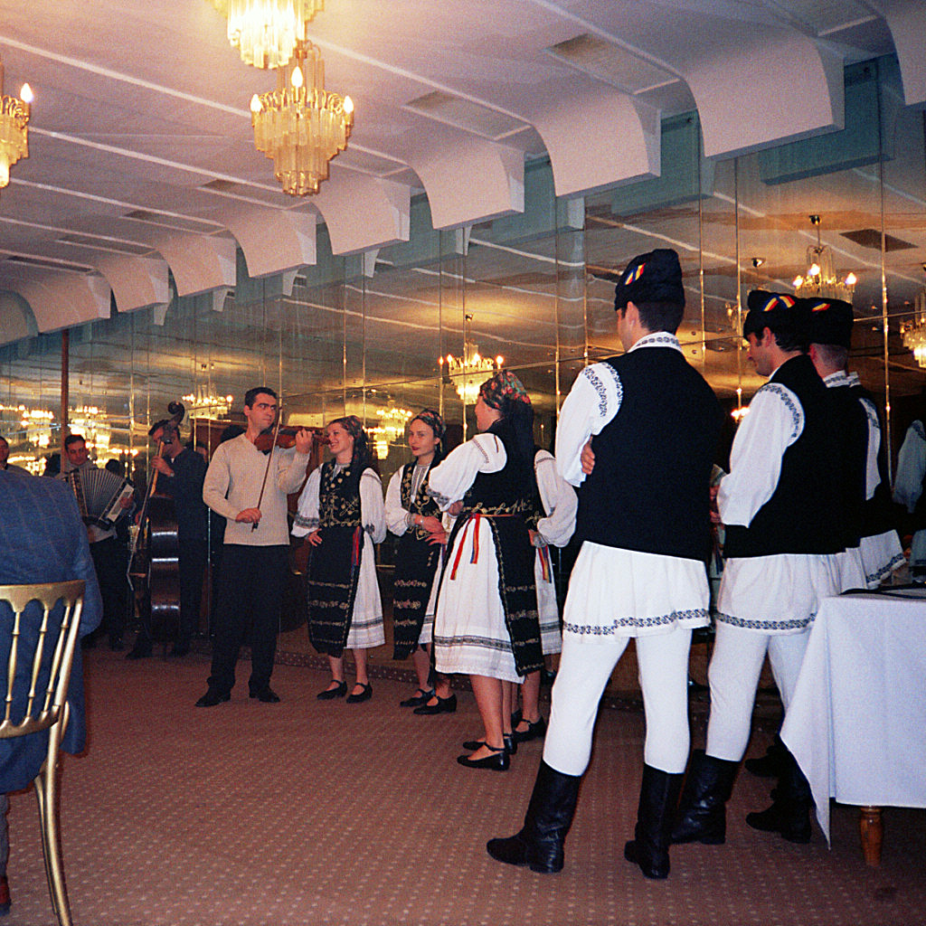 Romanian national costume